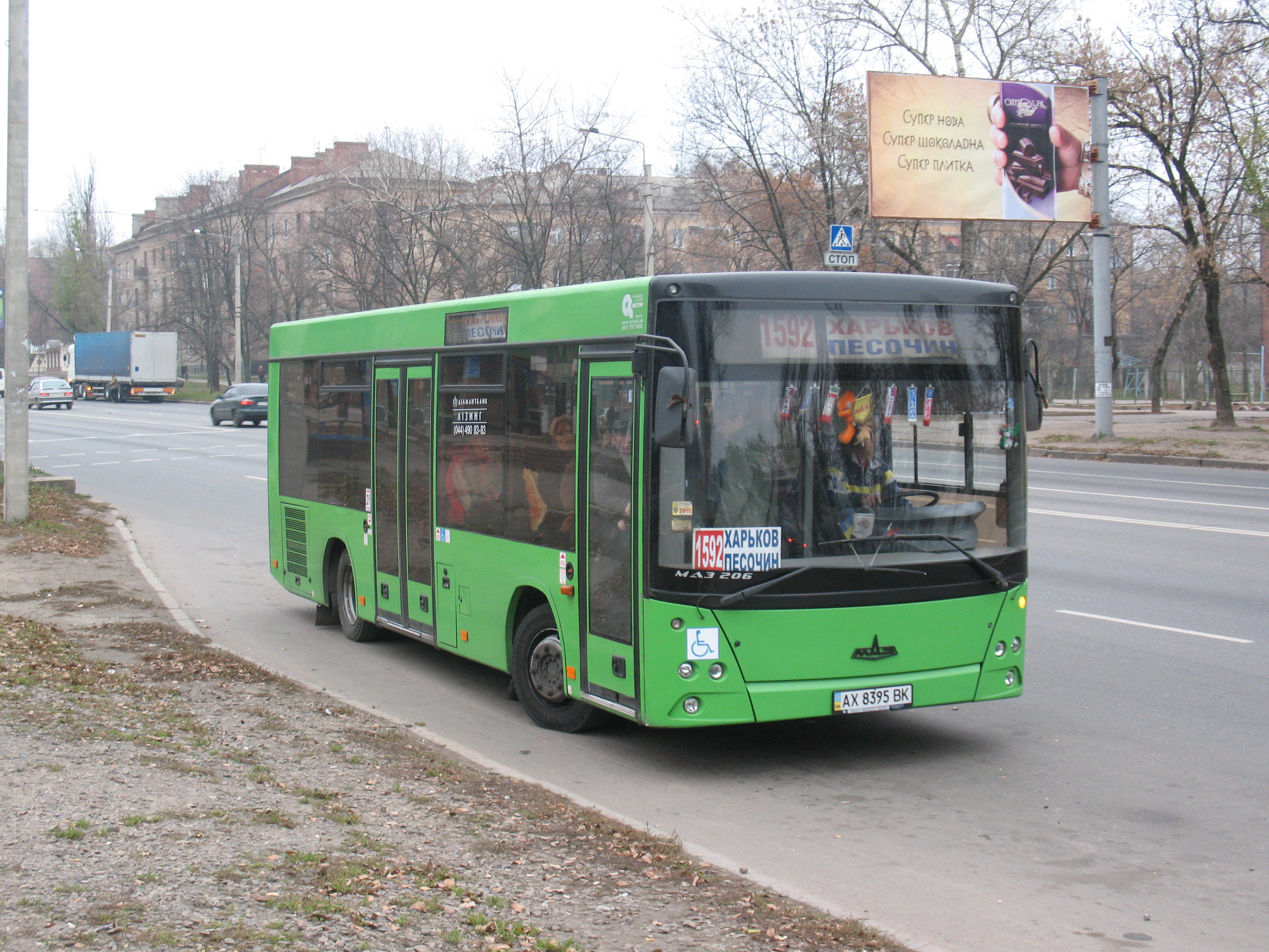 Kharkov city in Ukraine. Kharkov-Pesochin bus MAZ 206 (#1592).